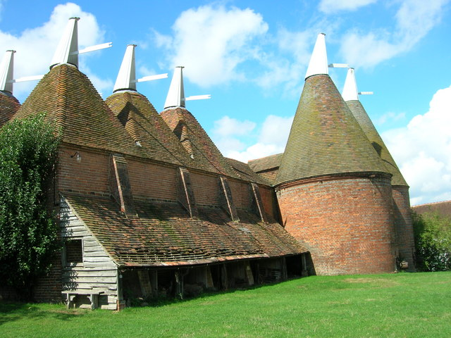 Oasthouses, Sissinghurst Castle